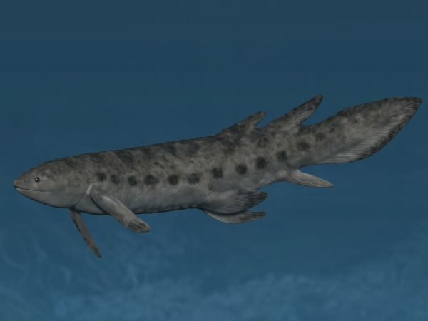 Dipterus